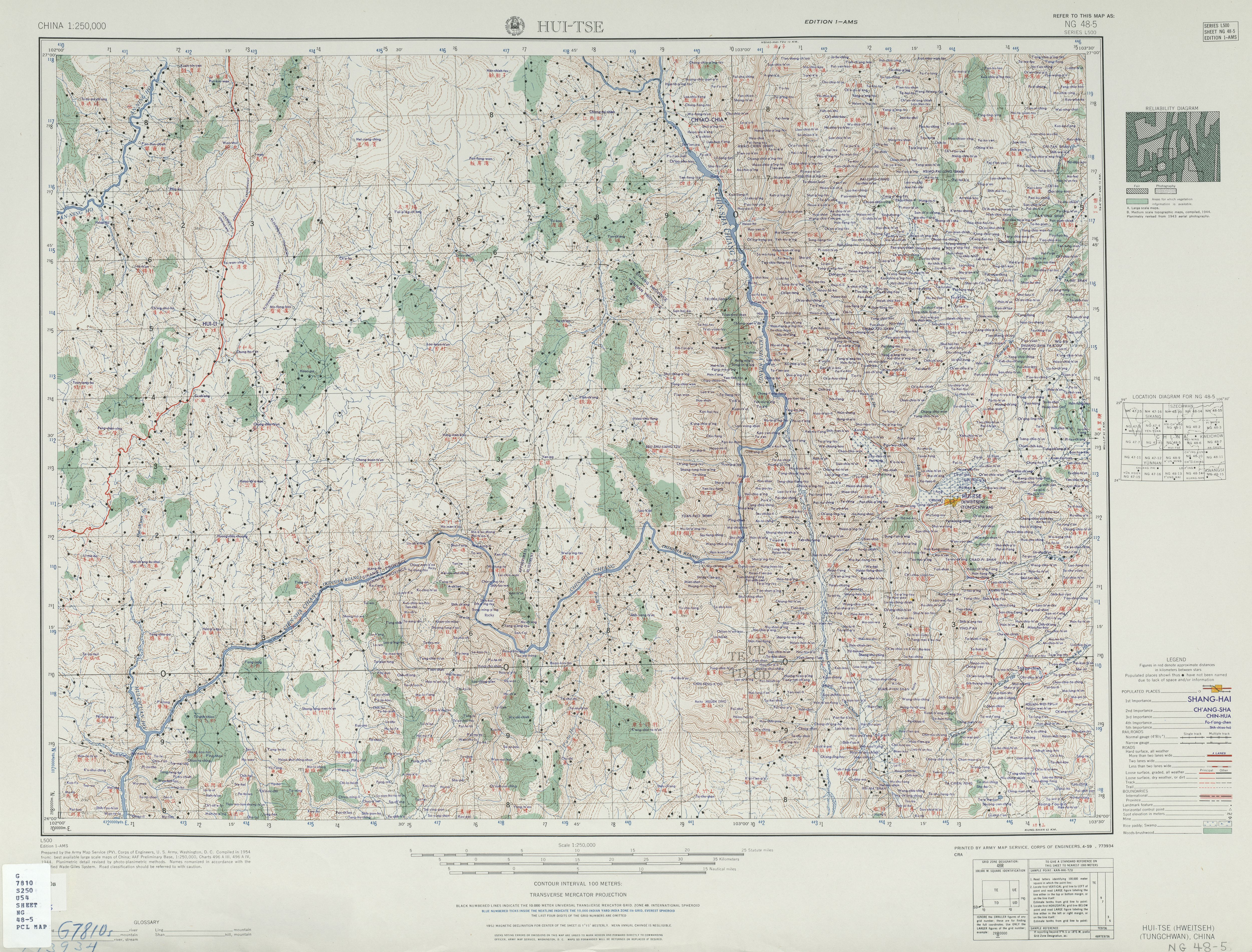 China AMS Topographic Maps